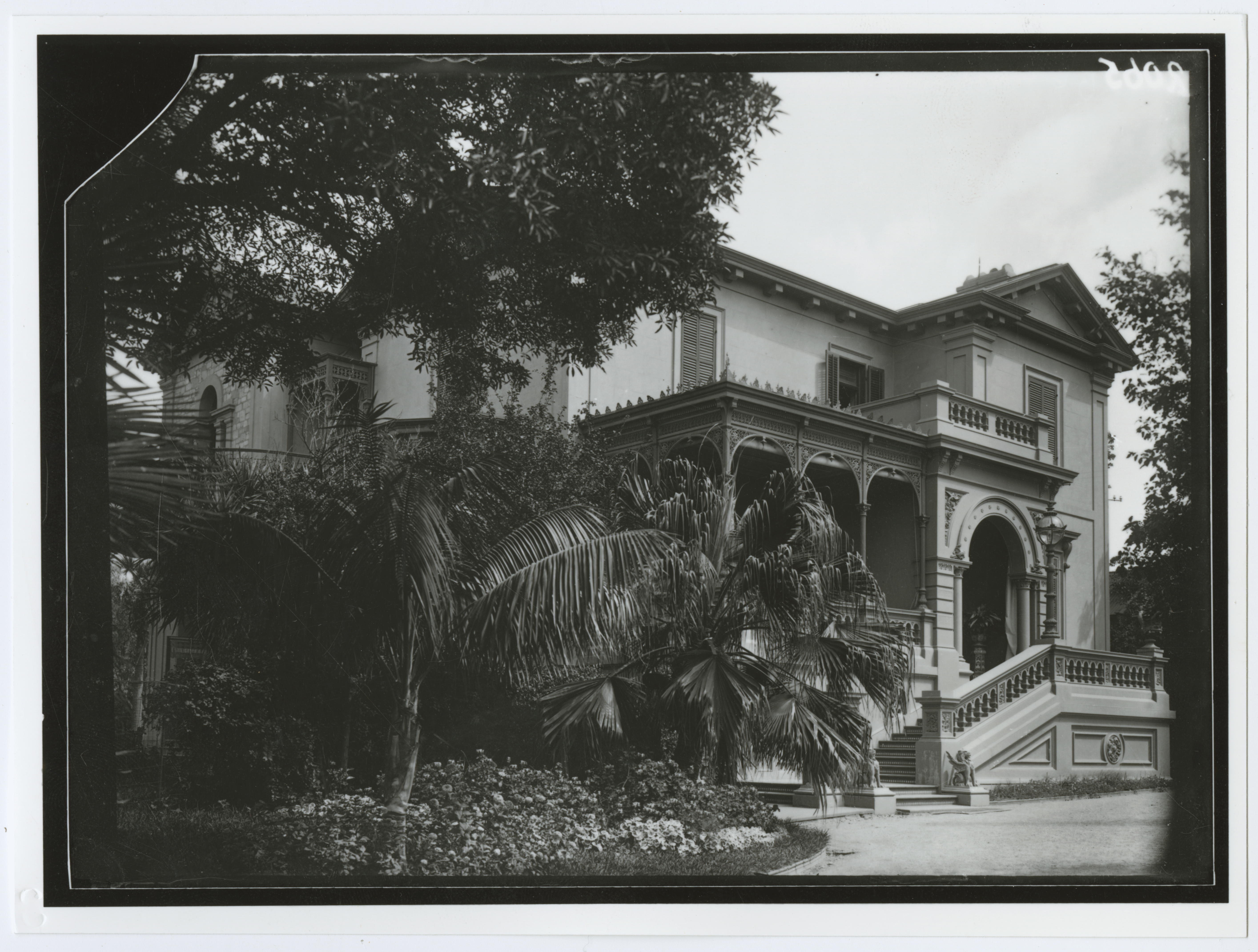 "Montefiore", Sir Samuel Way's residence in Palmer Place, North Adelaide. The second story was removed after his death in 1916.